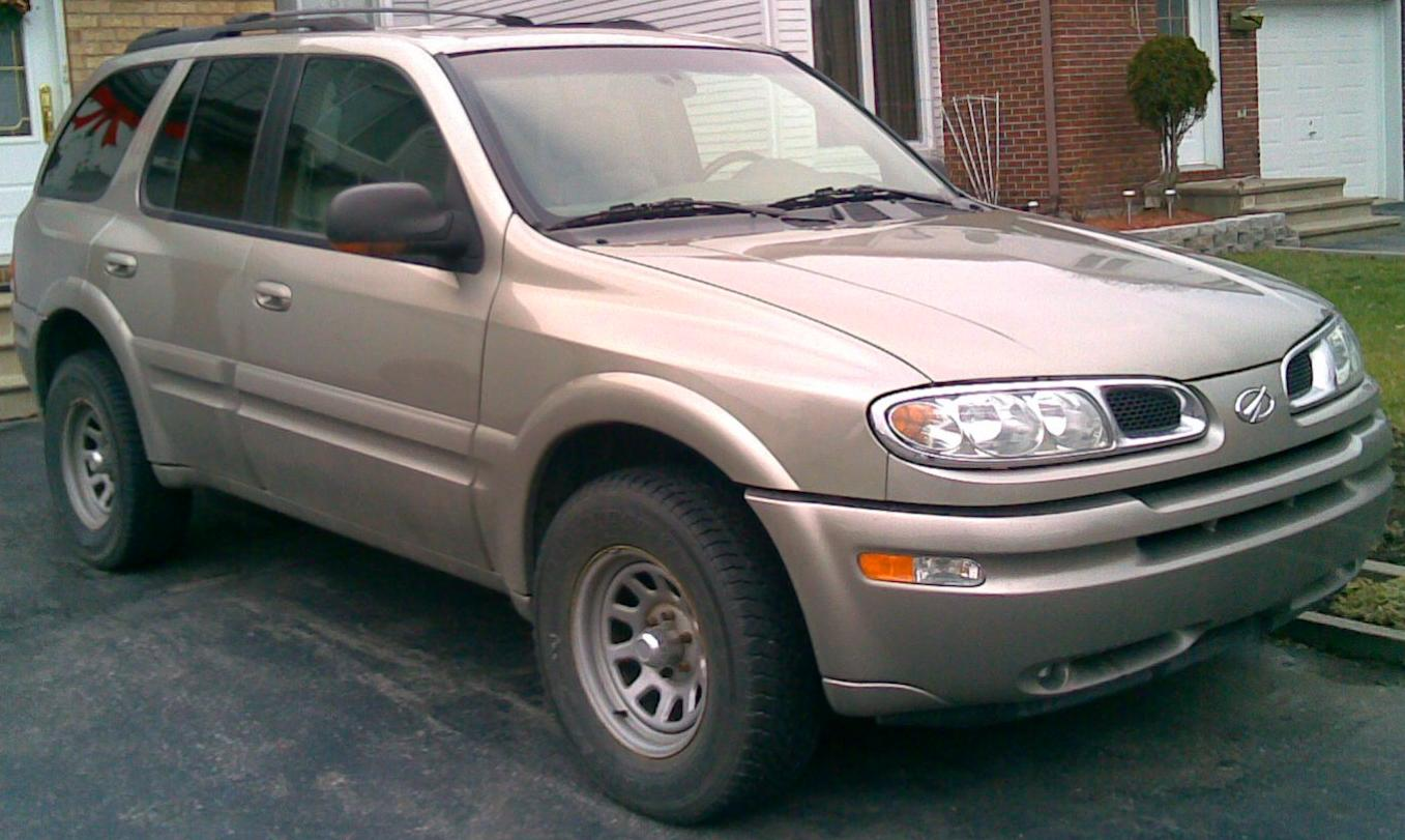 2002-2004 Oldsmobile Bravada photographed in Montreal, Quebec, Canada.